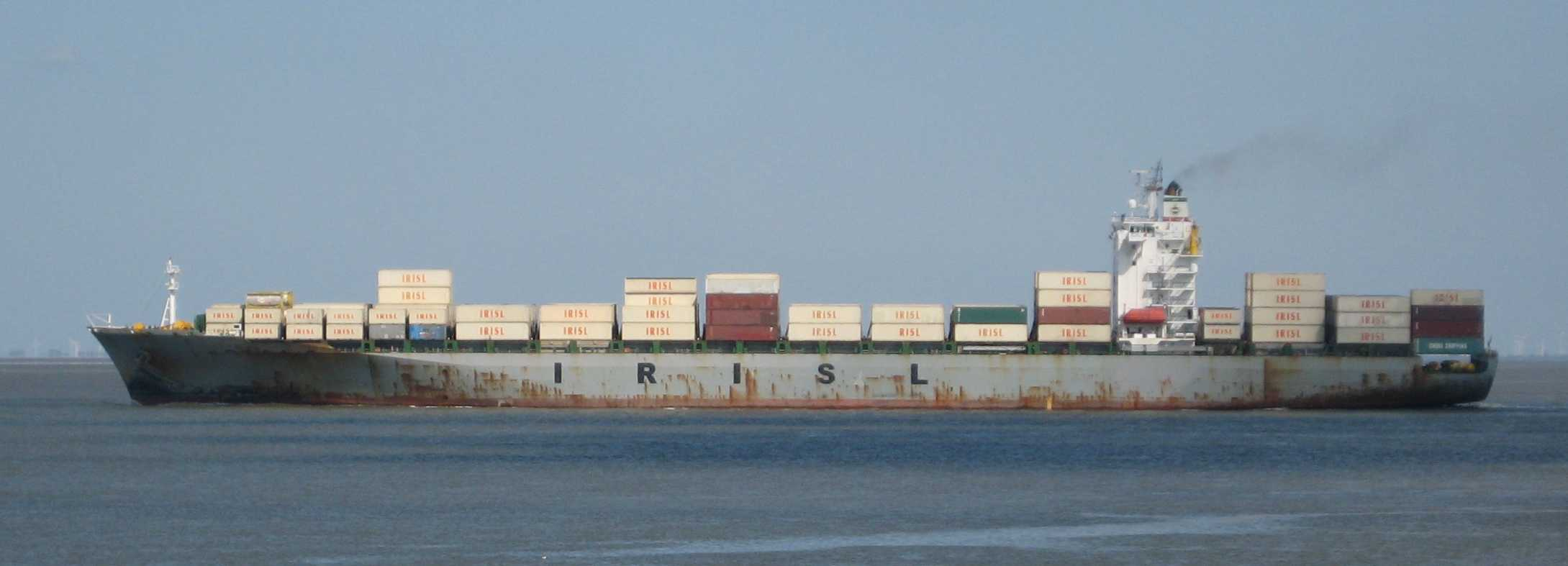 IRISL container ship Dandelion near Cuxhaven, Germany